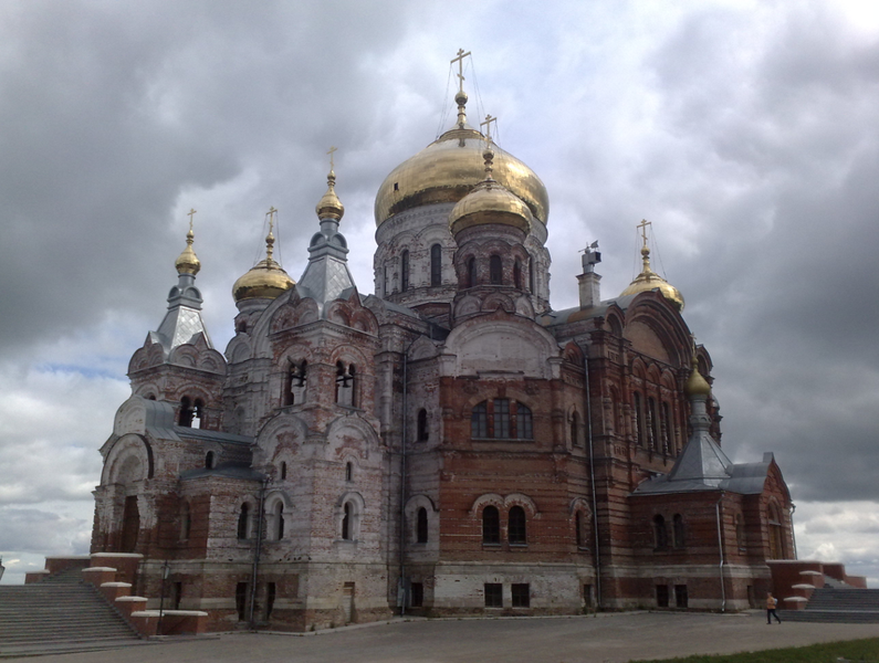 Belogorsky Monastery on the Belaja Gora in the krai of Perm, region of Kungur, Russia